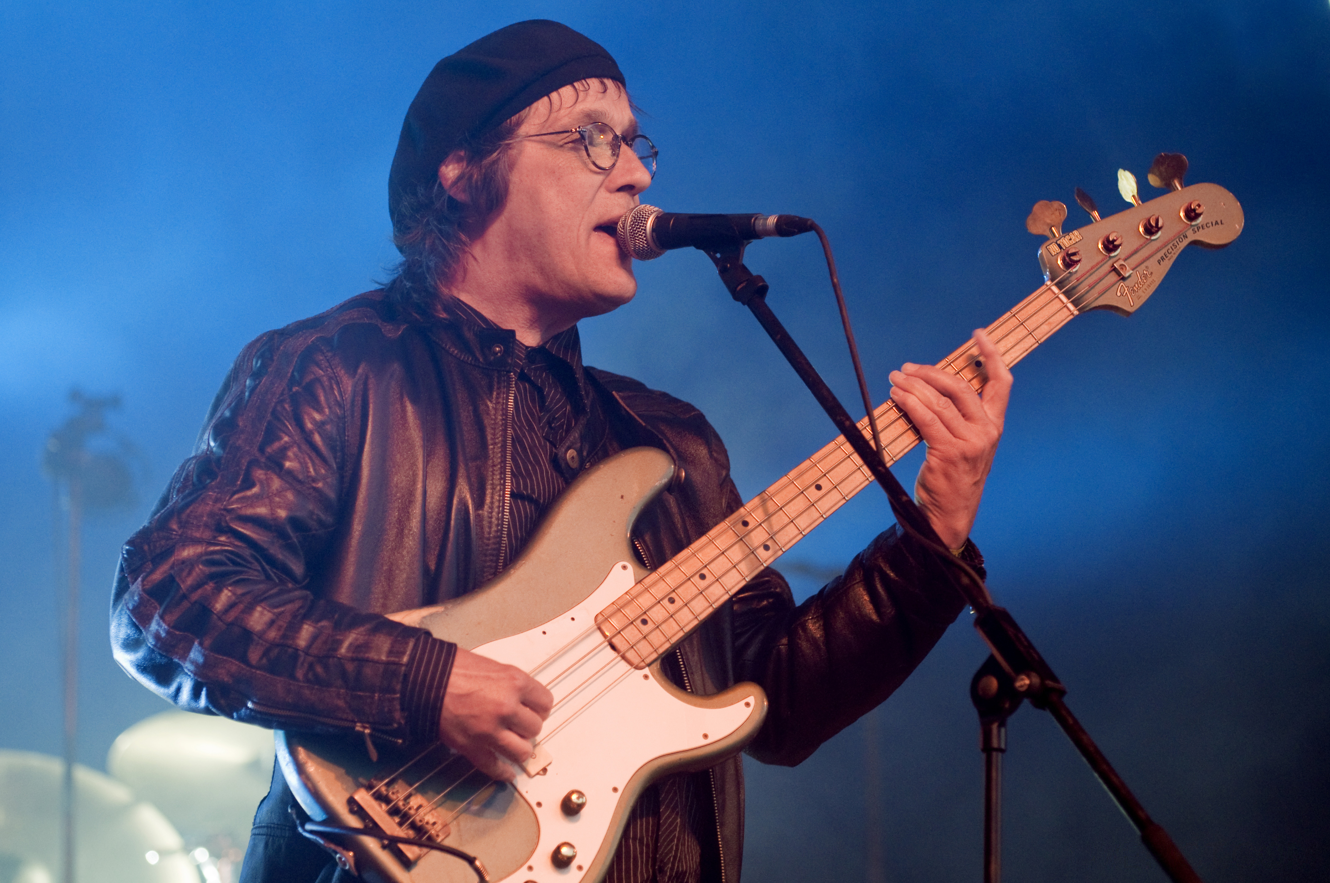 The Sonics